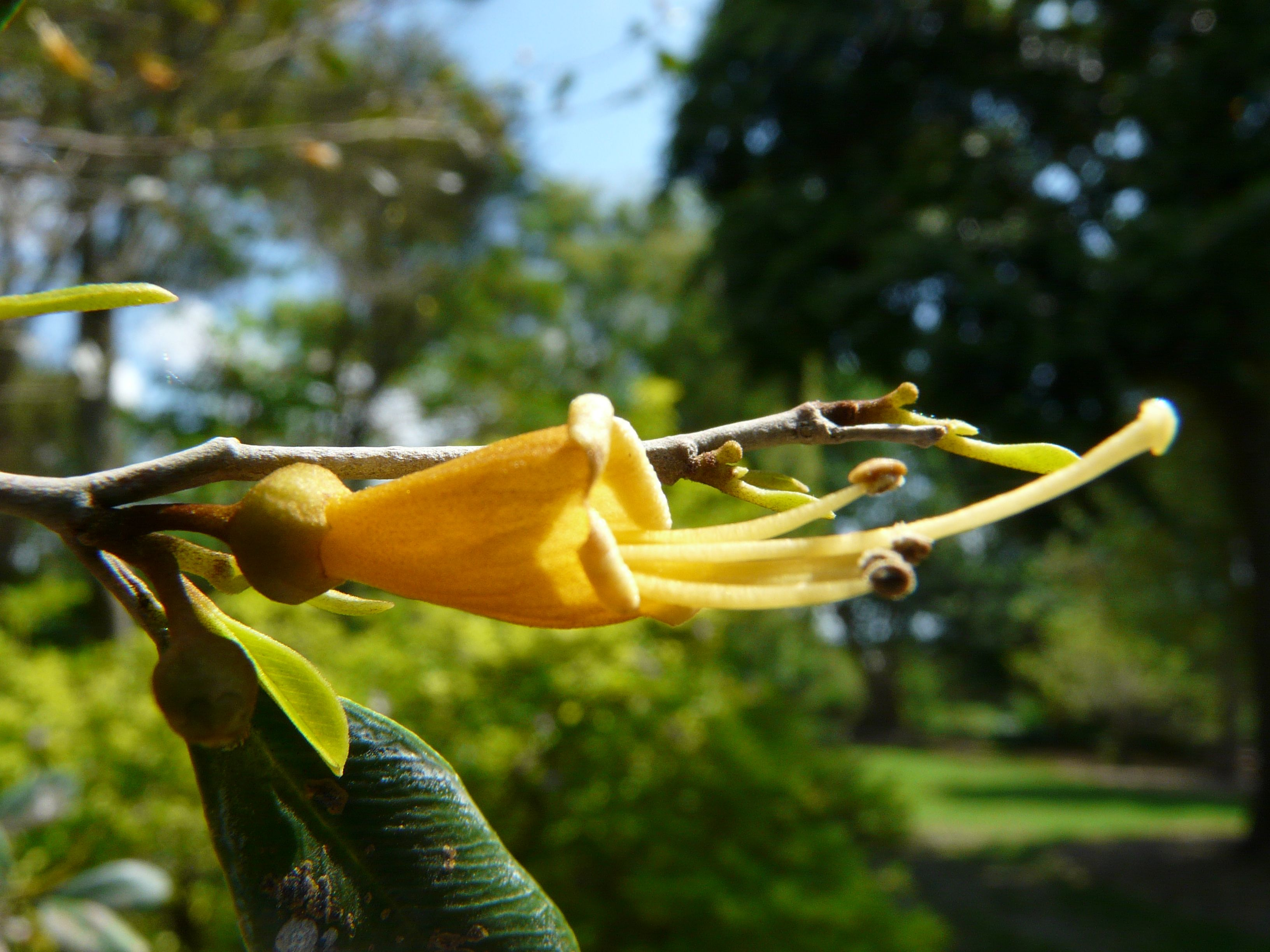 Espadaea amoena flower